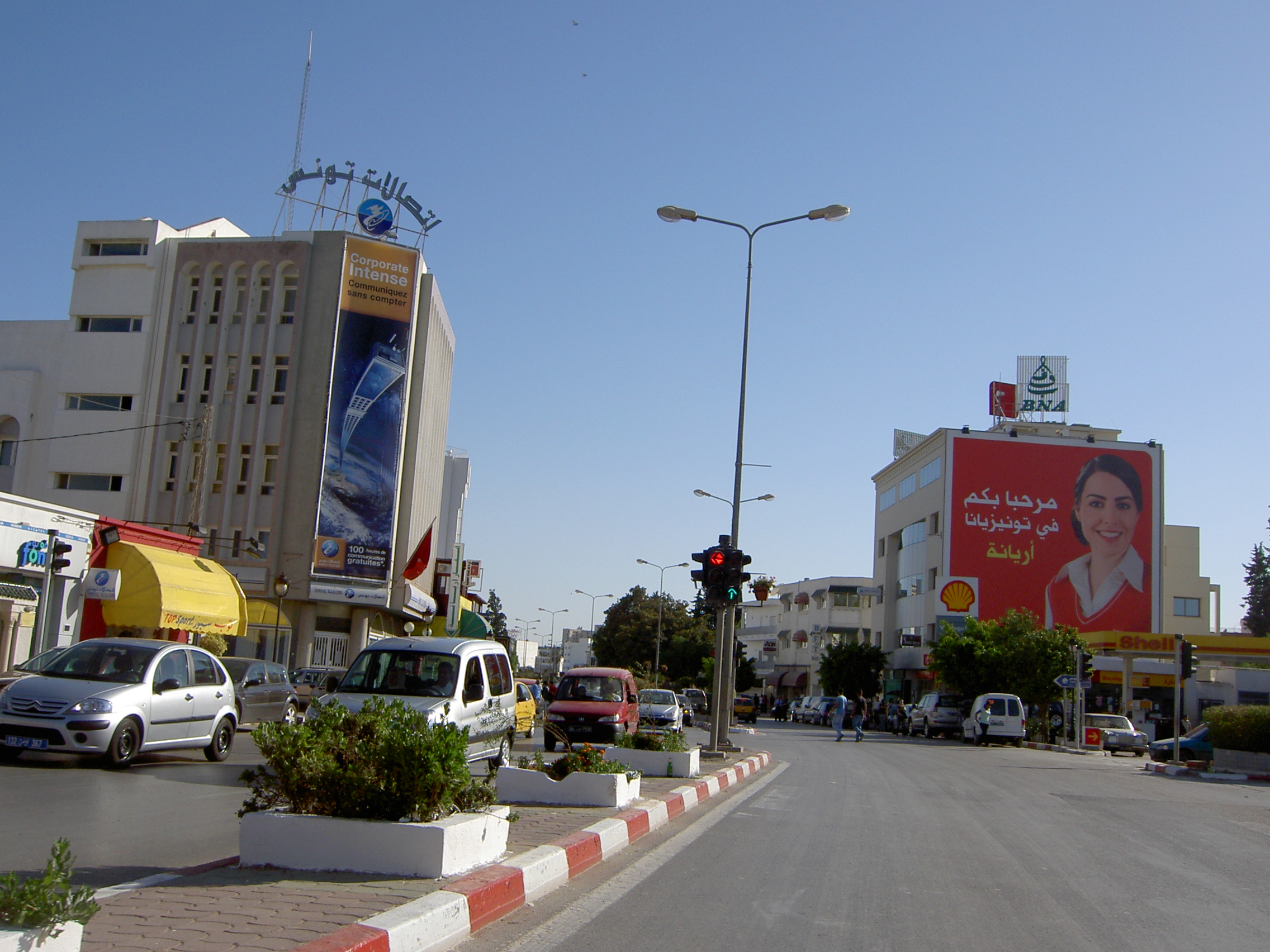 Ariana, Tunisia.